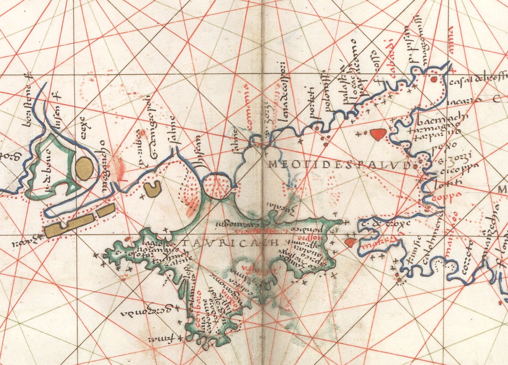 Black Sea. HM 33. BATTISTA AGNESE, PORTOLAN ATLAS Italy, ca. 1550 Call Number: HM 33 Folio: ff. 11v-12 Description: Black Sea.